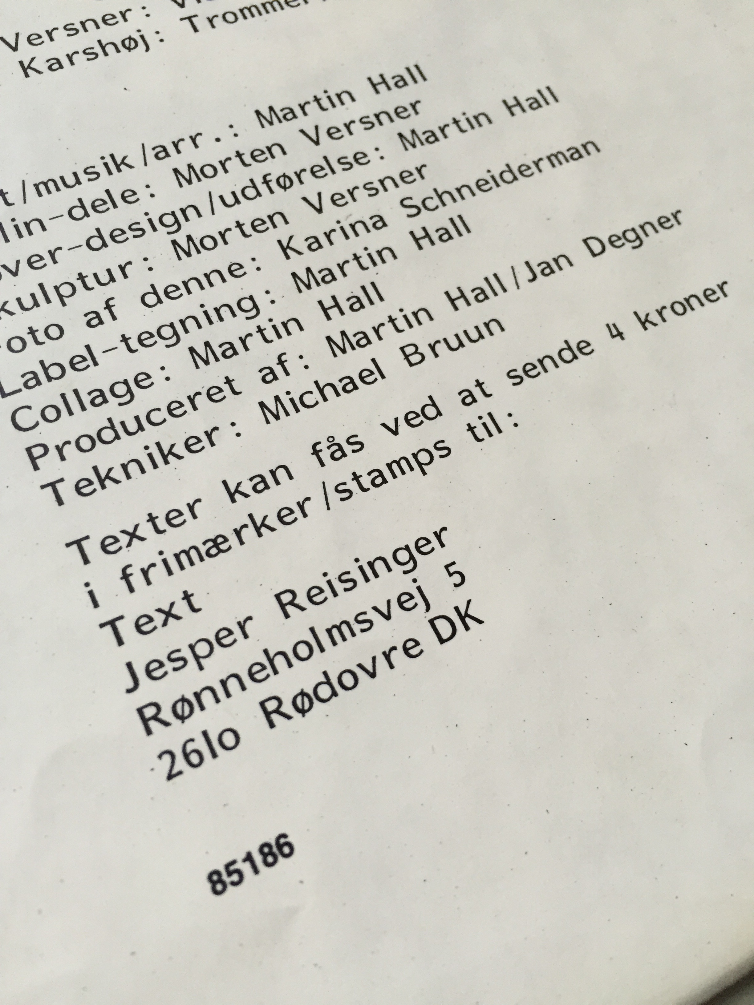 Liner notes mentioning Jesper Reisinger from the Ballet Mécanique album "The Icecold Waters Of The Egocentric Calculation"